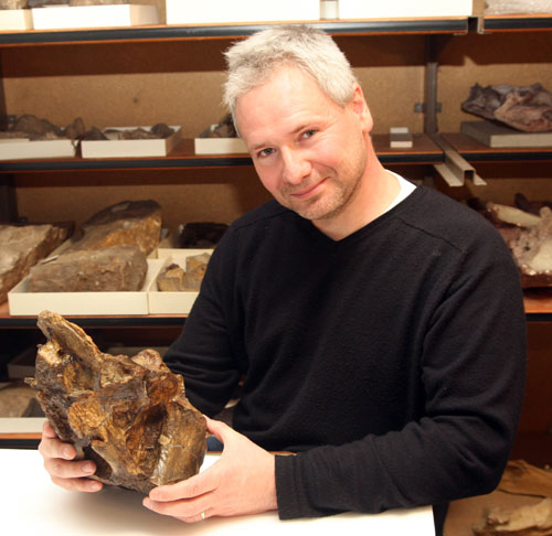 Palaeontologist Michael P. Taylor.